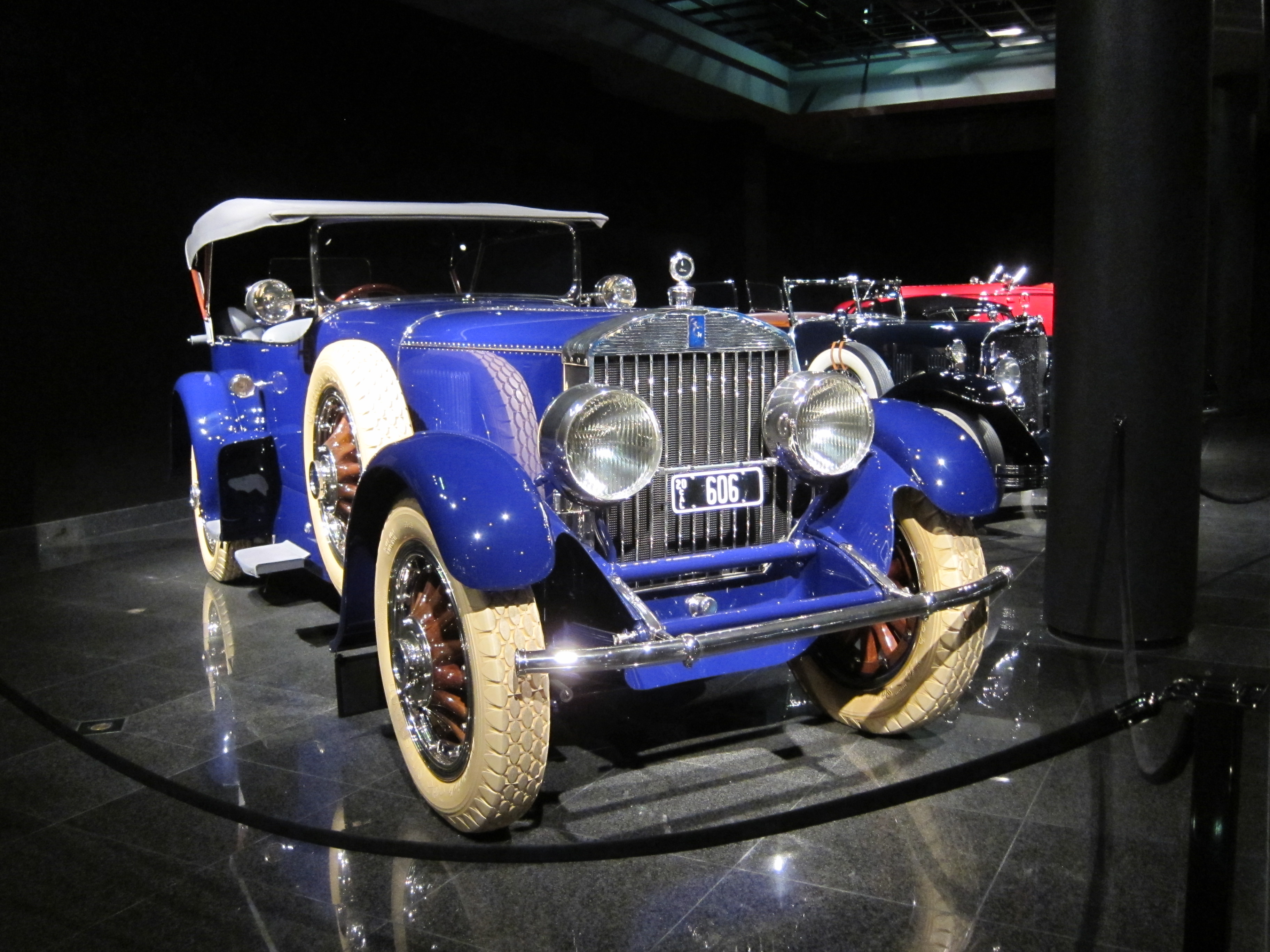 Awesome Behring collection of classic cars. Danville, CA